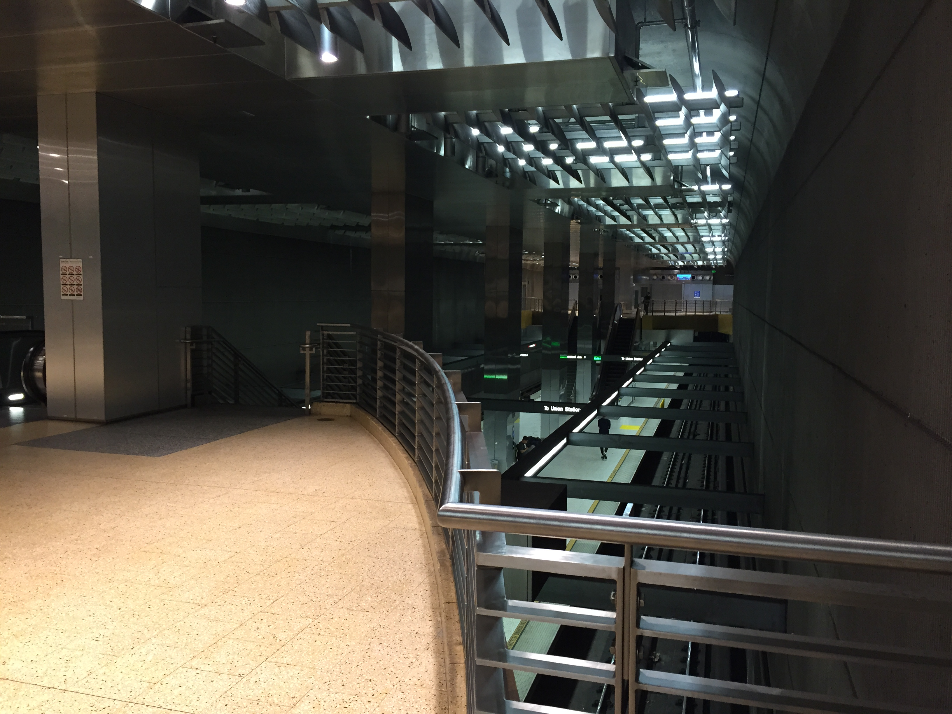 Mezzanine of the Vermont/Santa Monica LACMTA station in 2016